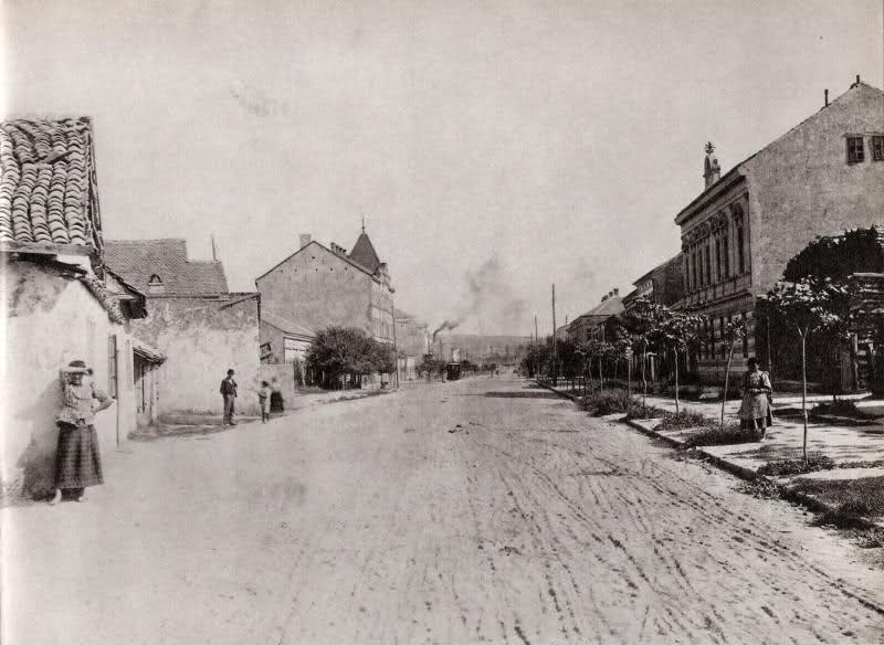 Cara Dusana Street